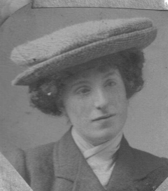 Alswen Dorothy Rose Montgomerie (d. 23 Dec 1943). Daughter of Seton Montolieu Montgomerie. Grand-daughter of 13th Earl of Eglinton.